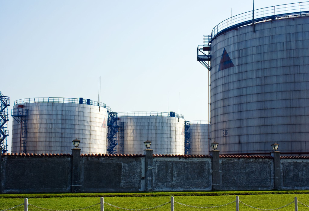 Oil tanks in Batumi.